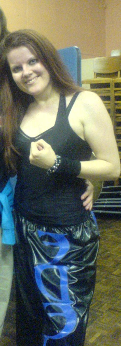 A picture of 'The Jezebel' Eden Black at CF XI, 03/08/08